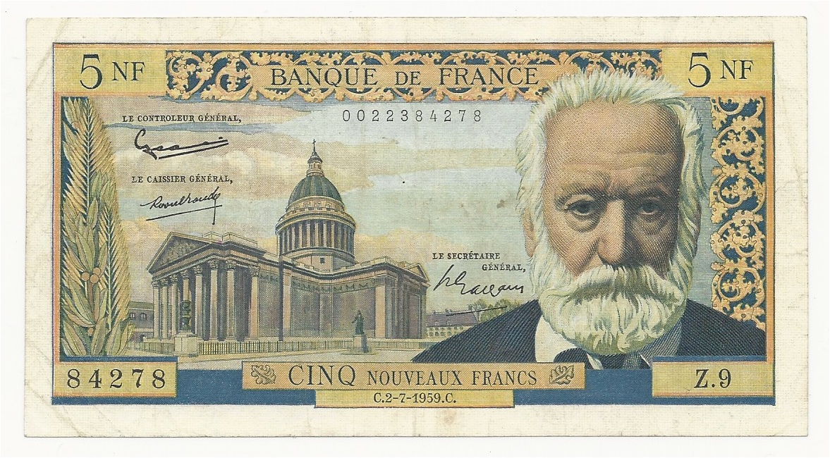 France 5 Francs 1959. VF- Banknote. Hugo, Victor, Poet, 1802 Besançon - 1885 Paris Portrait r. of his burial place the Panthéon in Paris / Portrait l. of Place des Vosges in Paris where he used to live. Pick 141a. Condition: An almost VERY FINE bank note. Some handling, folds, no nicks, no tears, no pinholes, no hidden problems.